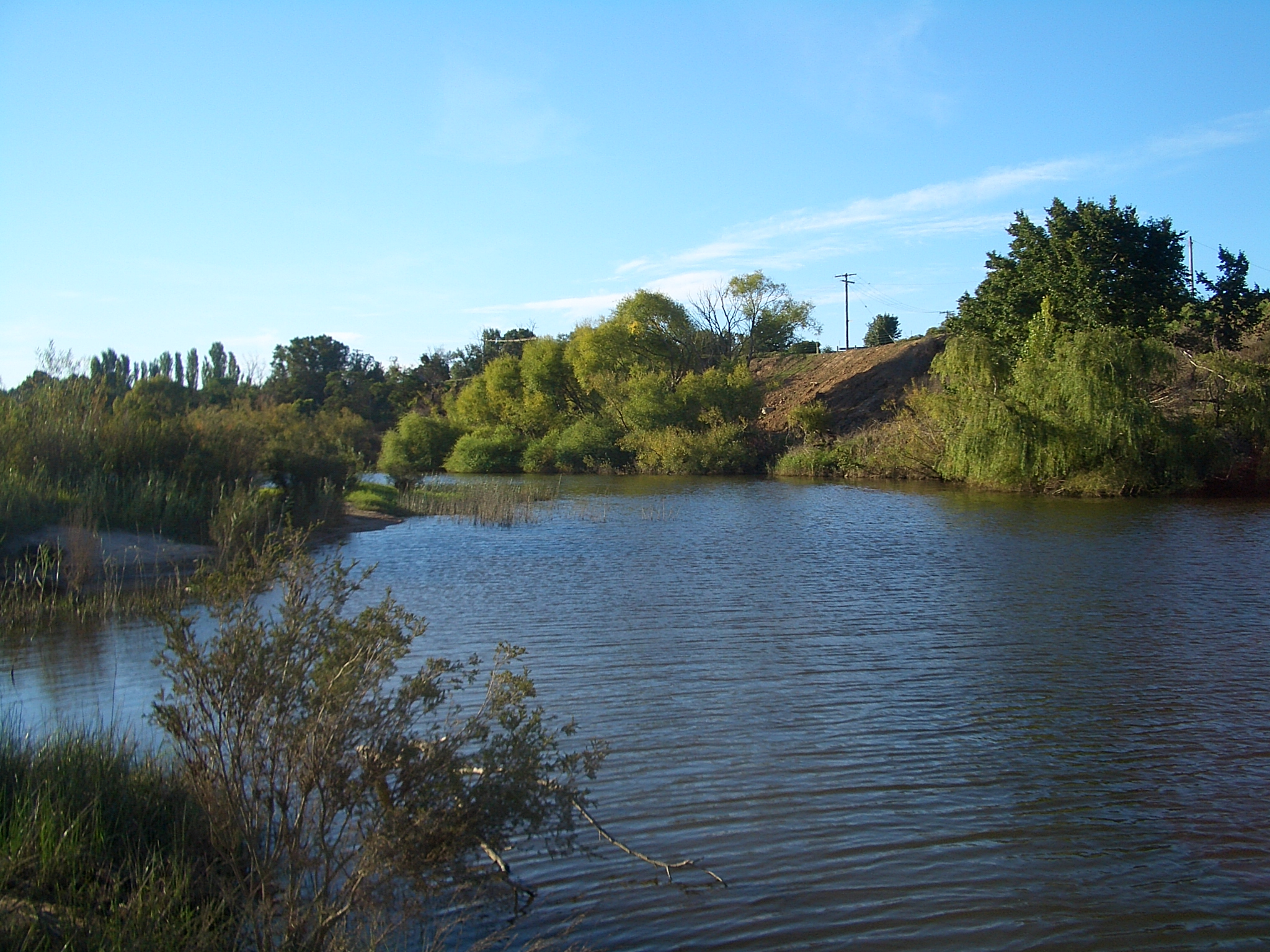 The Avon River, just SE of Stratford, in Gippsland, Victoria, Australia